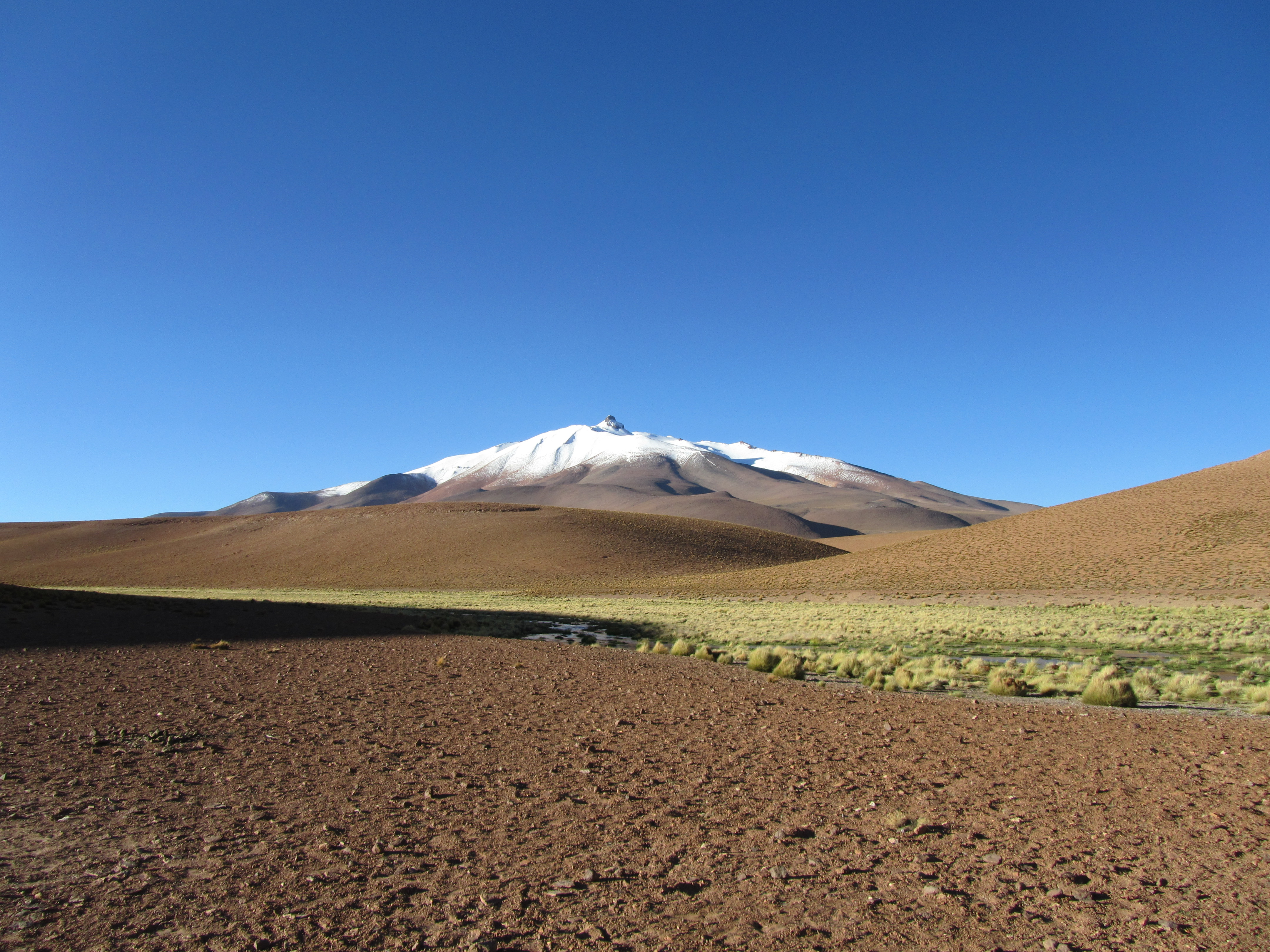 The Picture shows the volcan zapaleri. The Volcan is the border between Chile Argentinia and Bolivia. It was taken during an ascent on 09/03/2011.